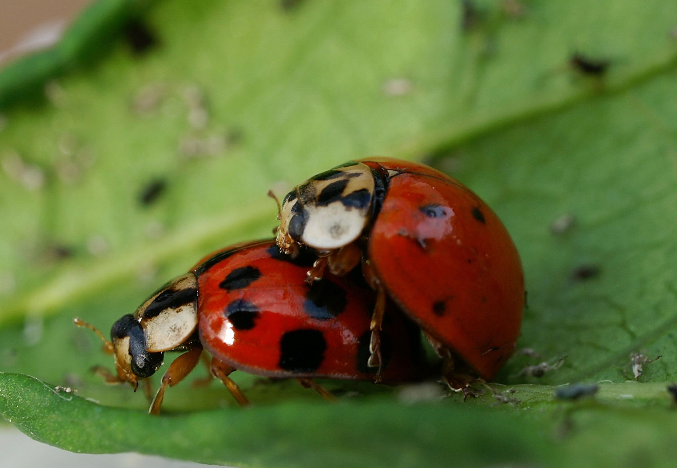 The Asian lady beetle (Harmonia axyridis), also known as the Multicolored Asian lady beetle.